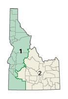 Image adapted from US fed gov't source Actually shows the first district. For a more detailed map, see Image:ID-districts-109.gif. Category:Congressional districts of Idaho